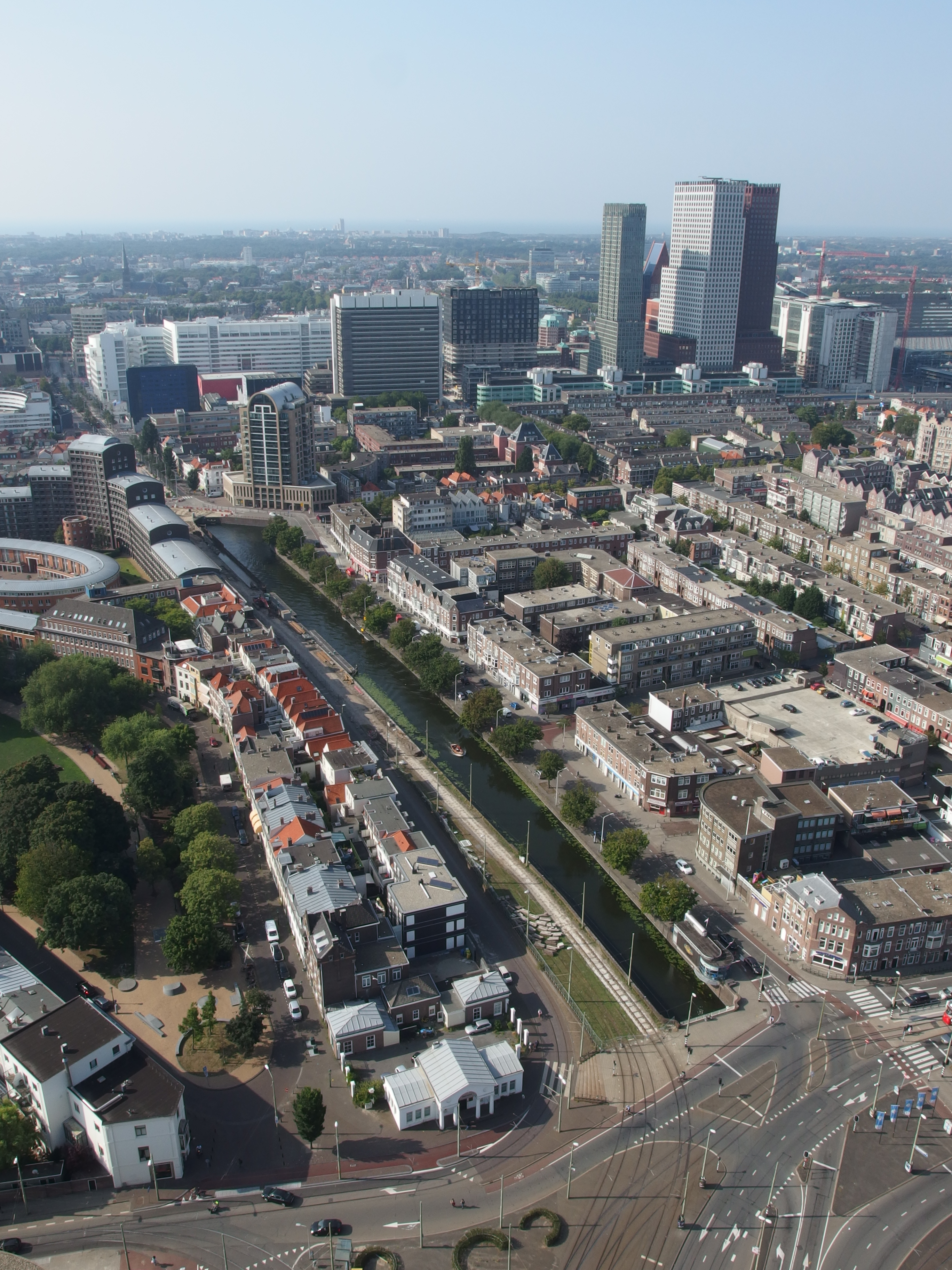 Observatory 'The Penthouse'at the 'Haagse Toren' city center of The Hague.